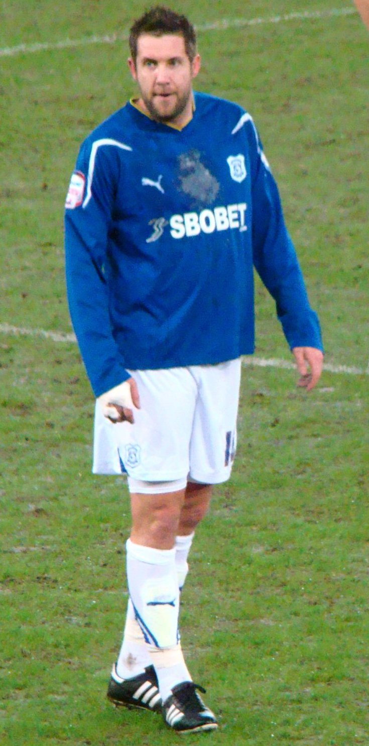 18/01/11 Cardiff V Stoke, FA Cup Replay, Cardiff City Stadium, Cardiff, Wales